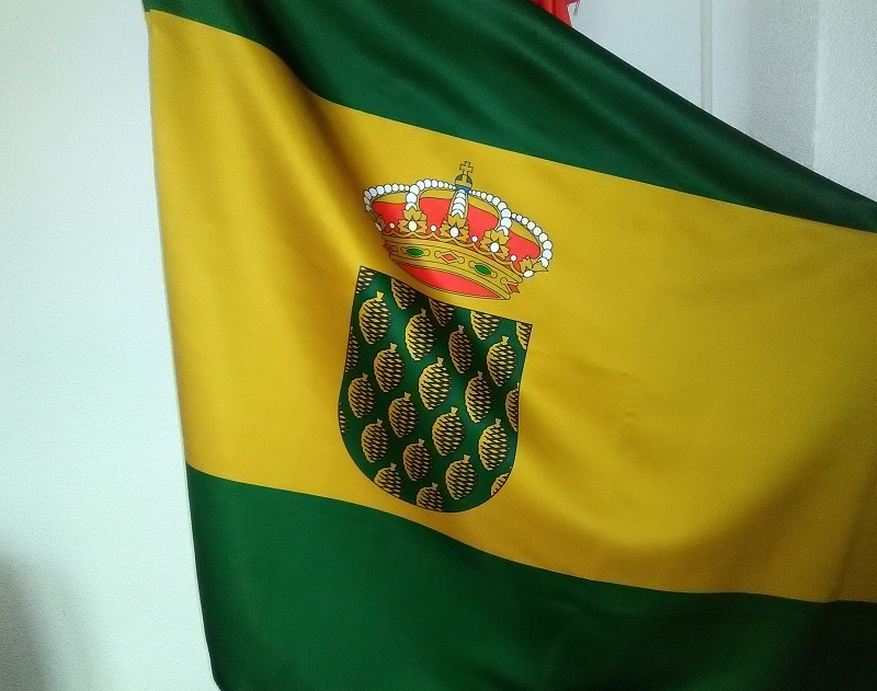 Flag of the Navalperal de Pinares, a municipality in Ávila, Castile and León, Spain.